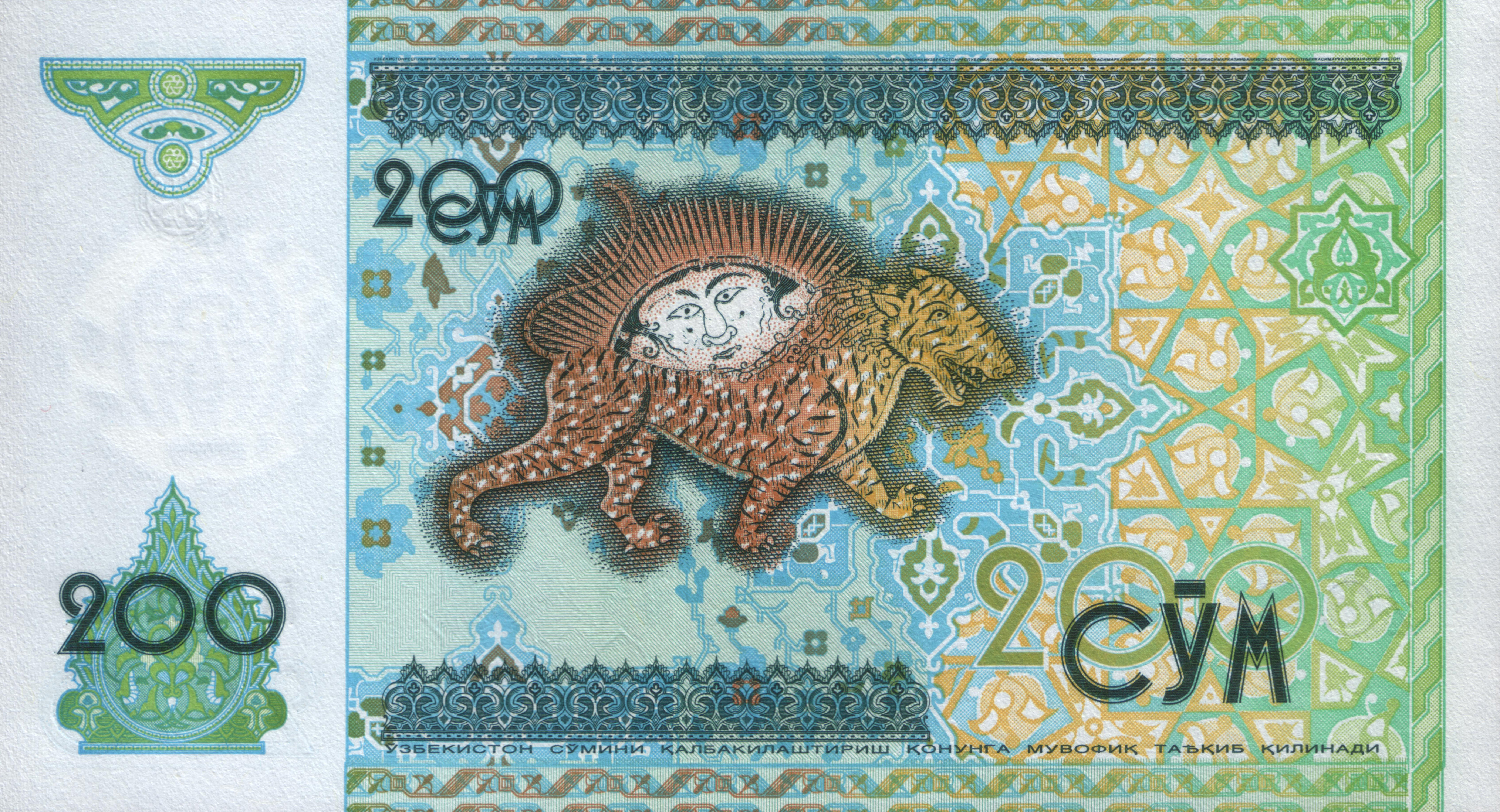 200 sum of Uzbekistan (1997)